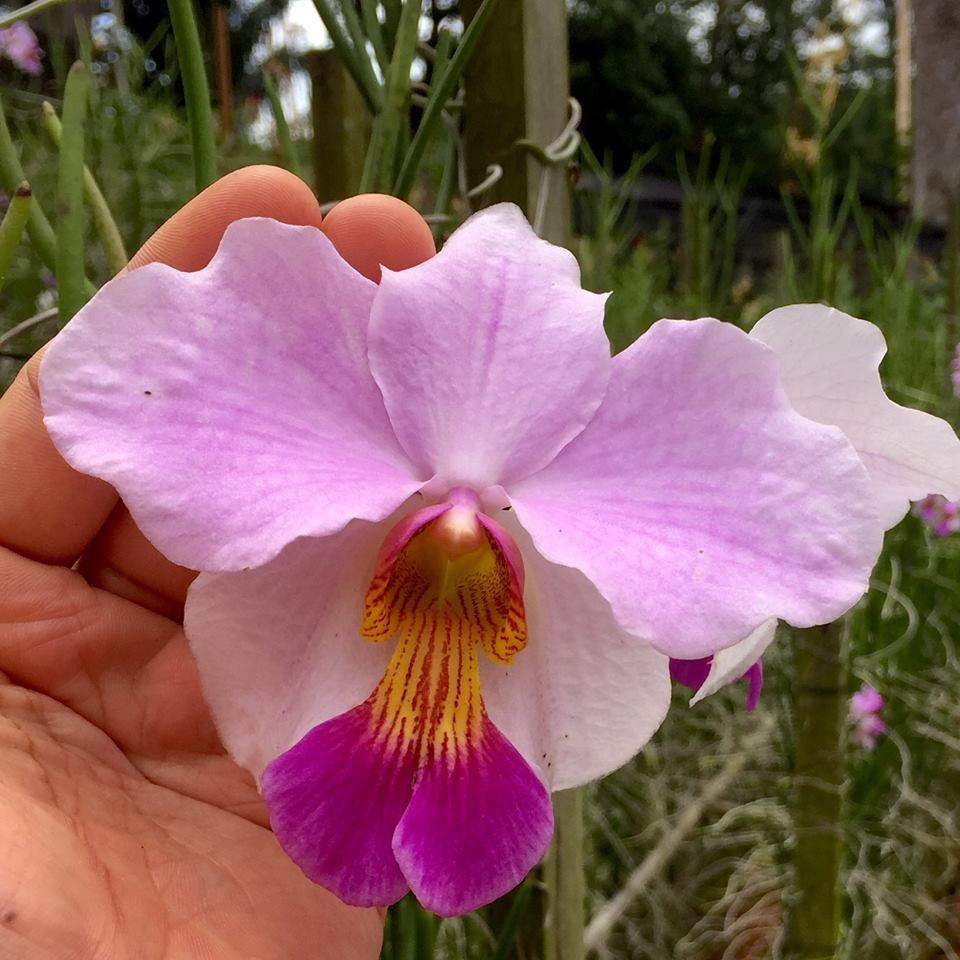 Papilionanthe teres var. andersonii ‘Holttum’